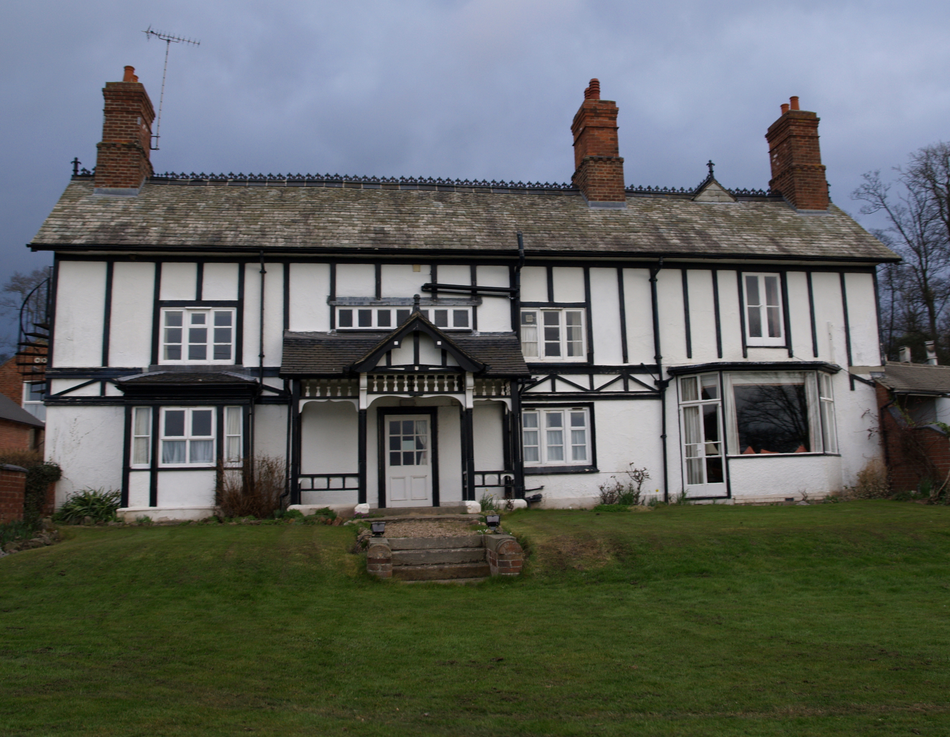 Donington Park Farmhouse Hotel, Isley Walton